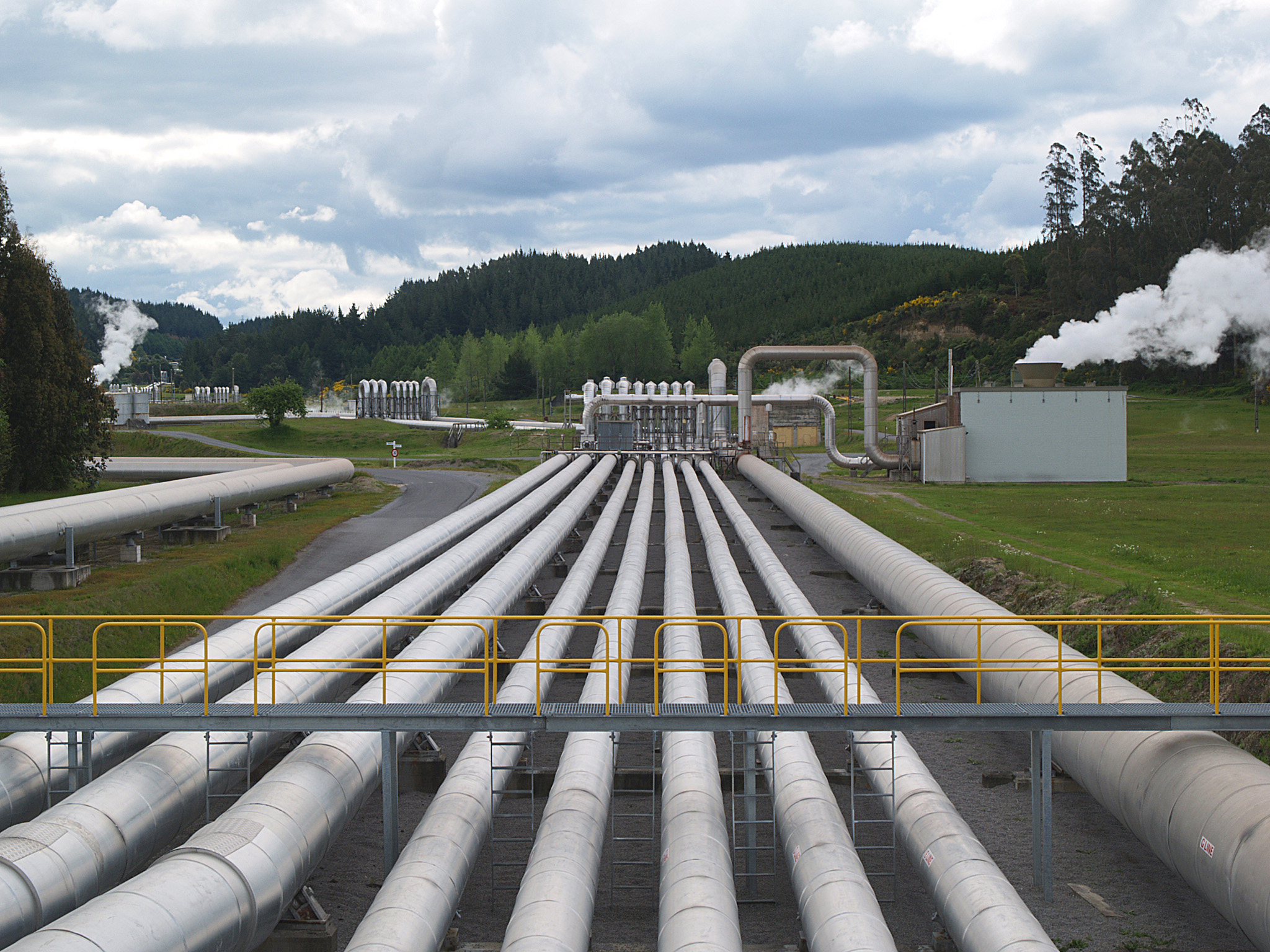 Pipelines of a geothermal power station north of Taupo, New Zealand